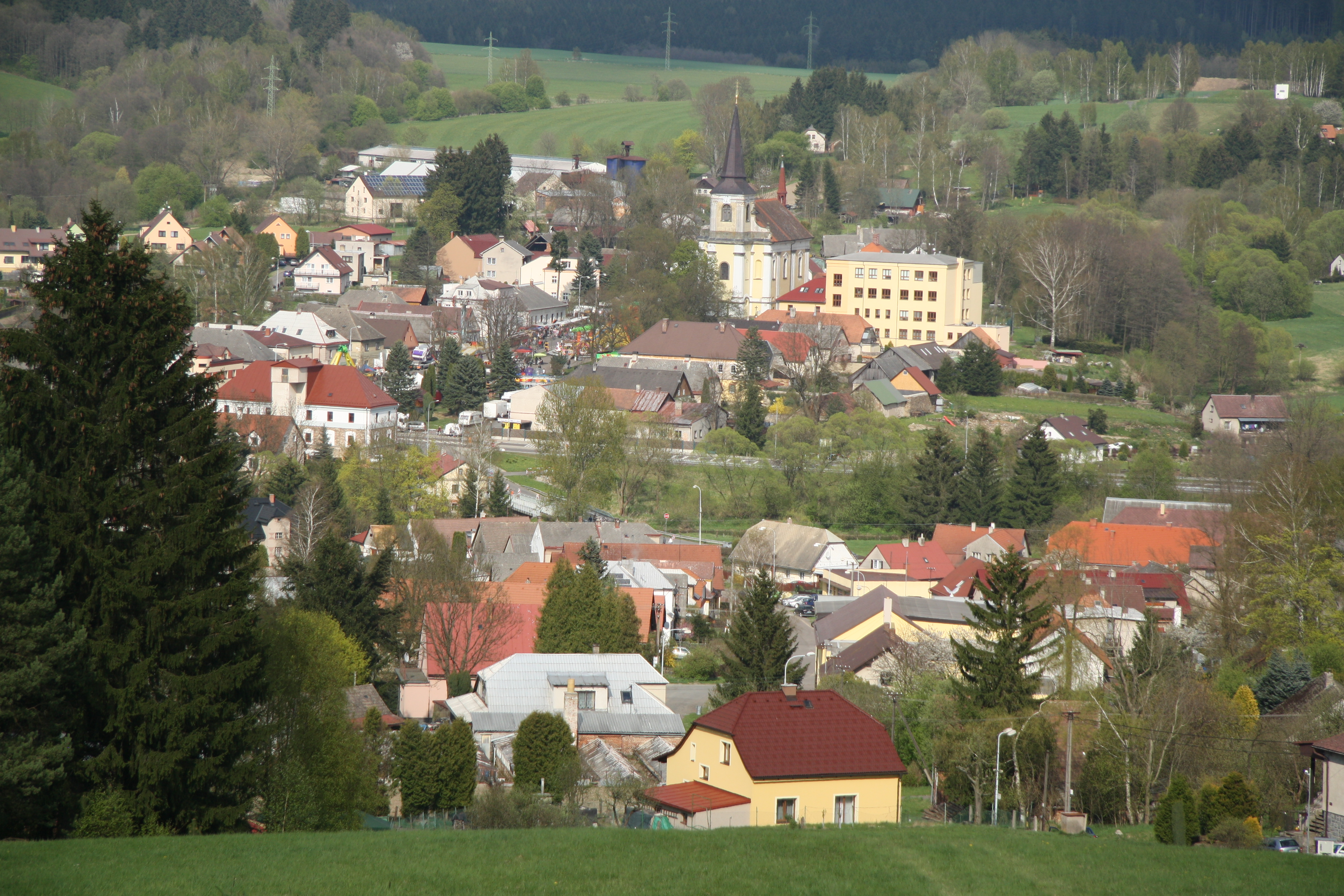 Overview of Trhová Kamenice, Chrudim District.